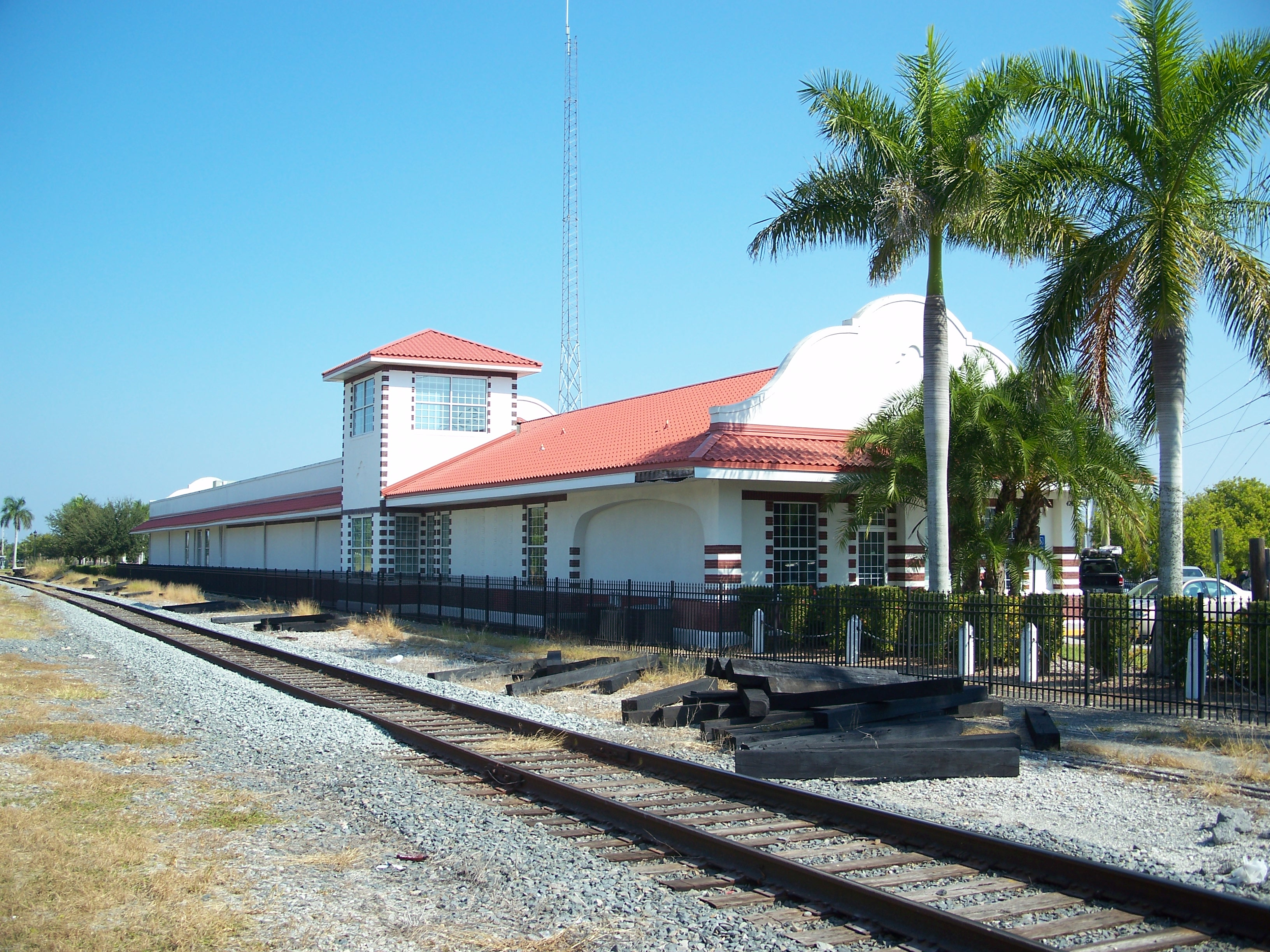 Bradenton, Florida: Old Bradentown ACL depot, now an eye clinic